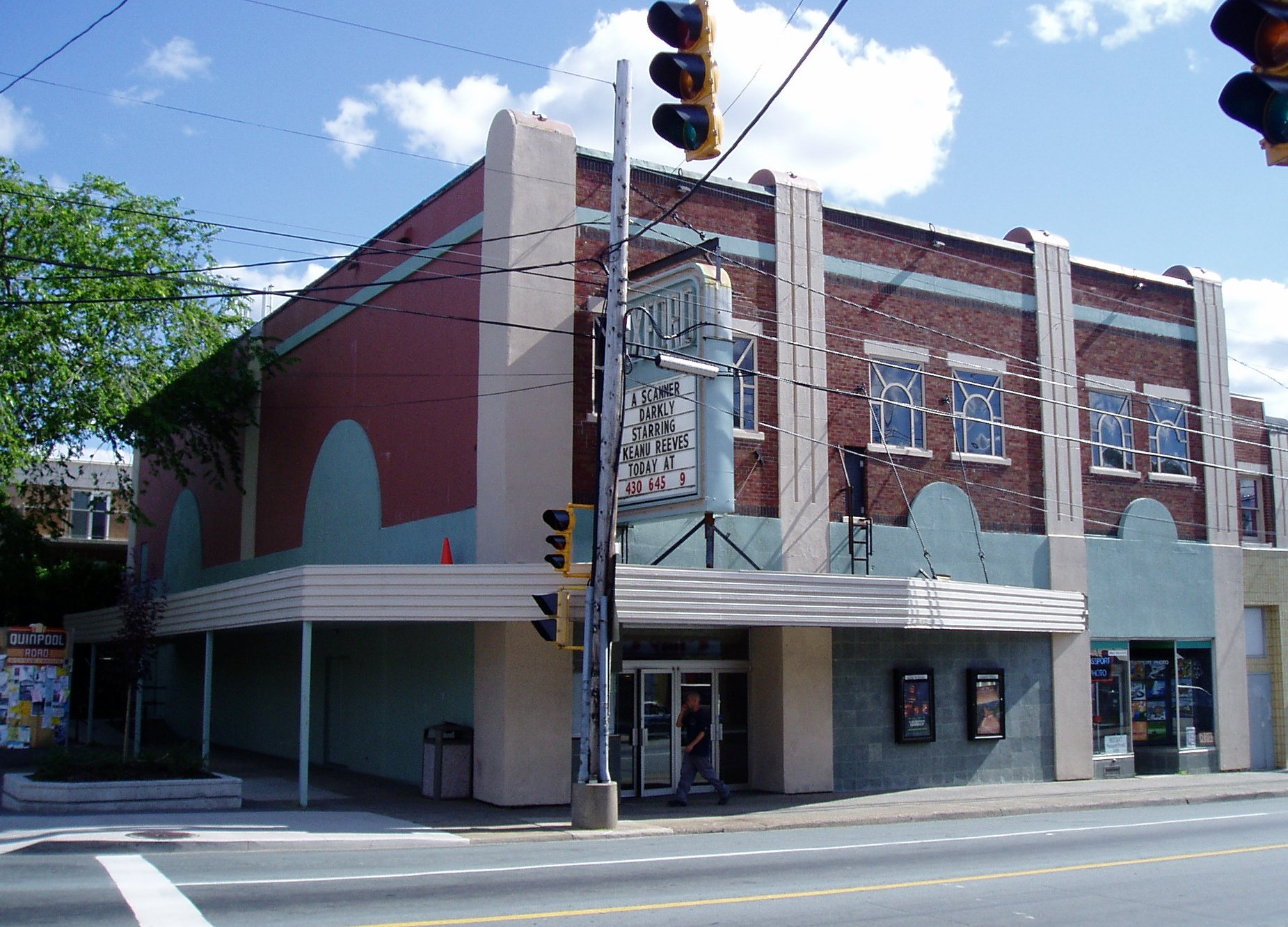 The Oxford Theatre in Halifax. Taken by SimonP